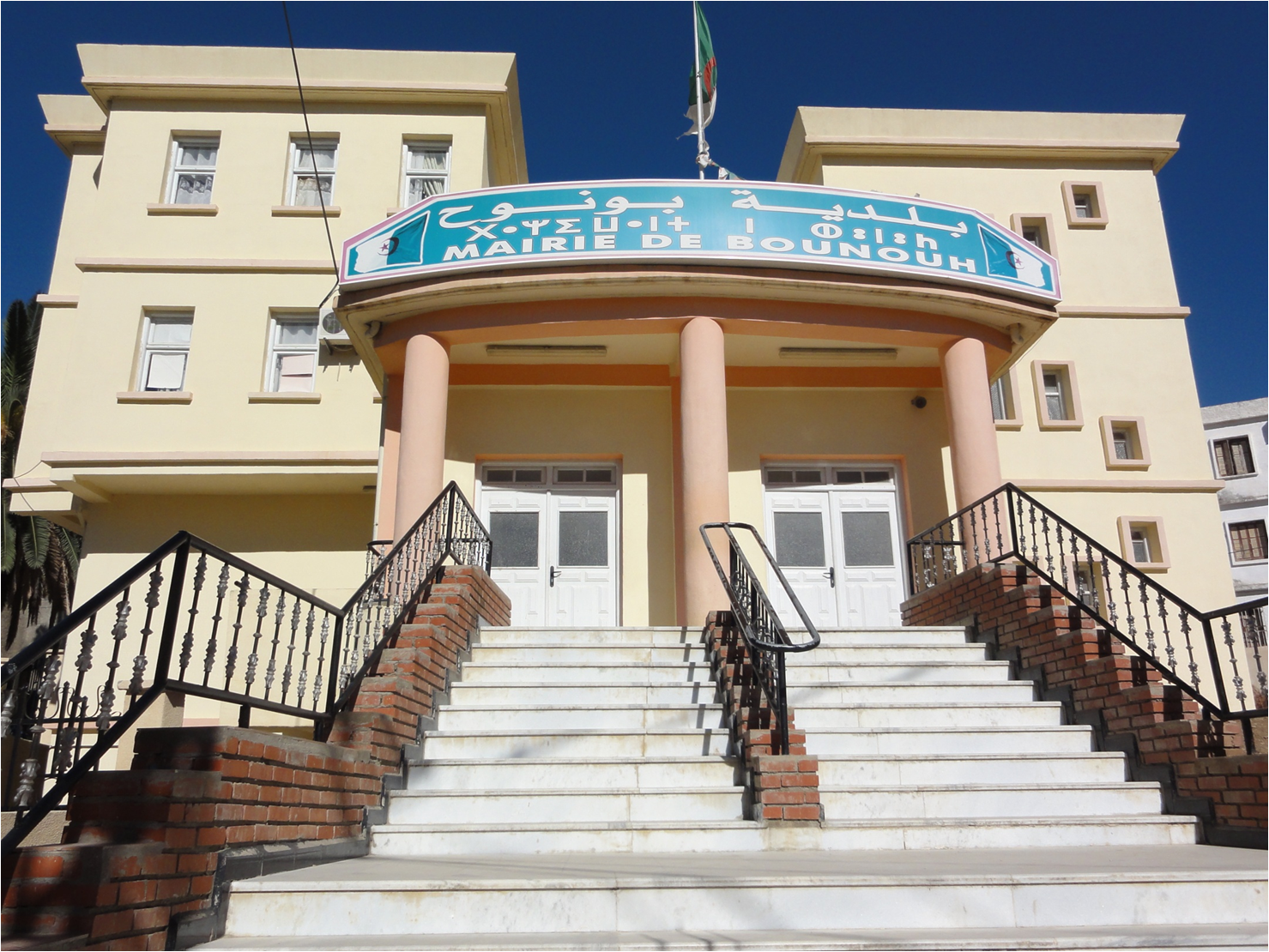 Photo showing Bounouh new Town Hall